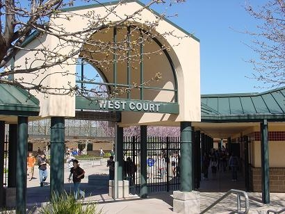 A Picture of Granite Oaks Middle school — Placer County, California.